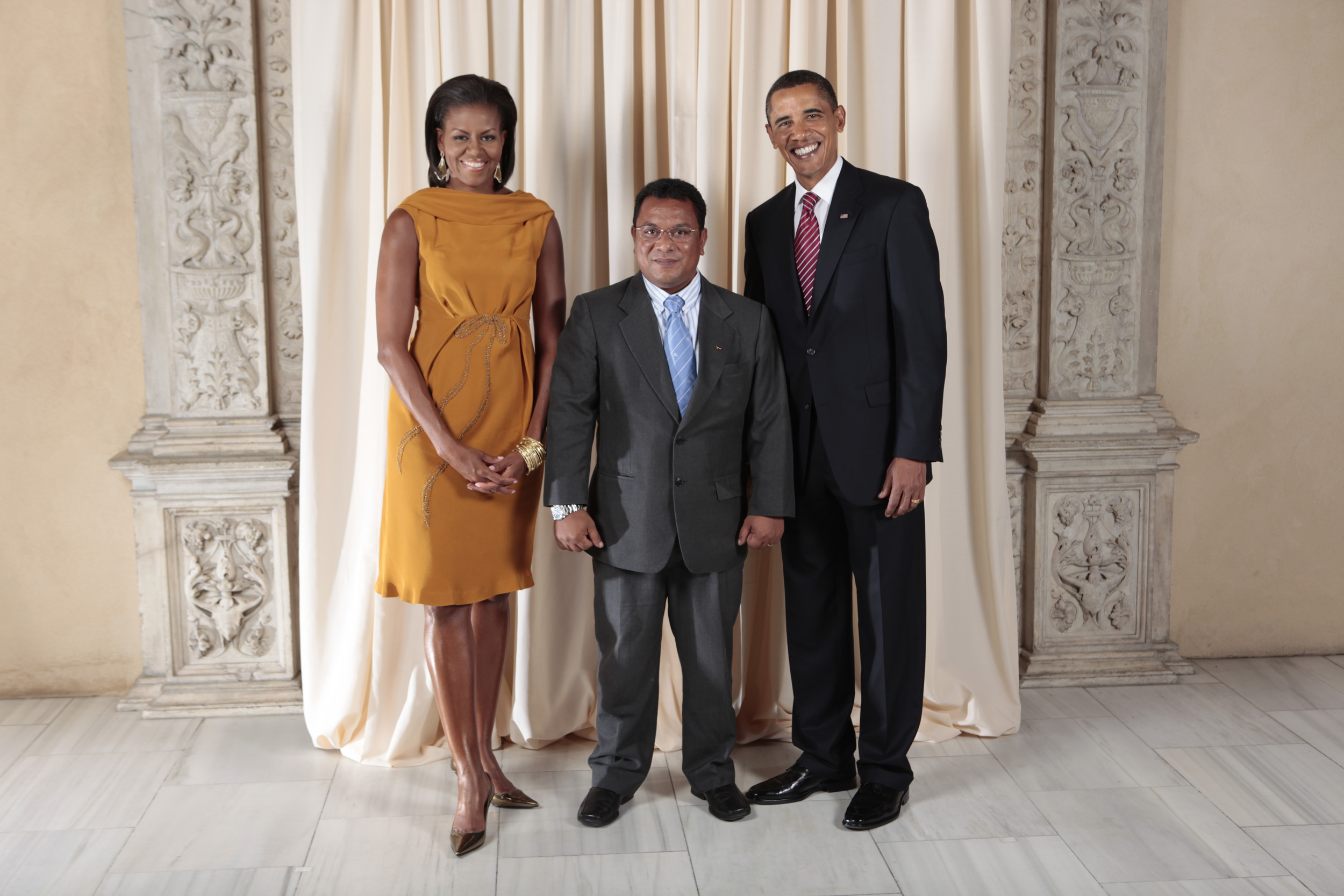 President Barack Obama and First Lady Michelle Obama pose for a photo during a reception at the Metropolitan Museum in New York with President Marcus Stephen of Nauru.